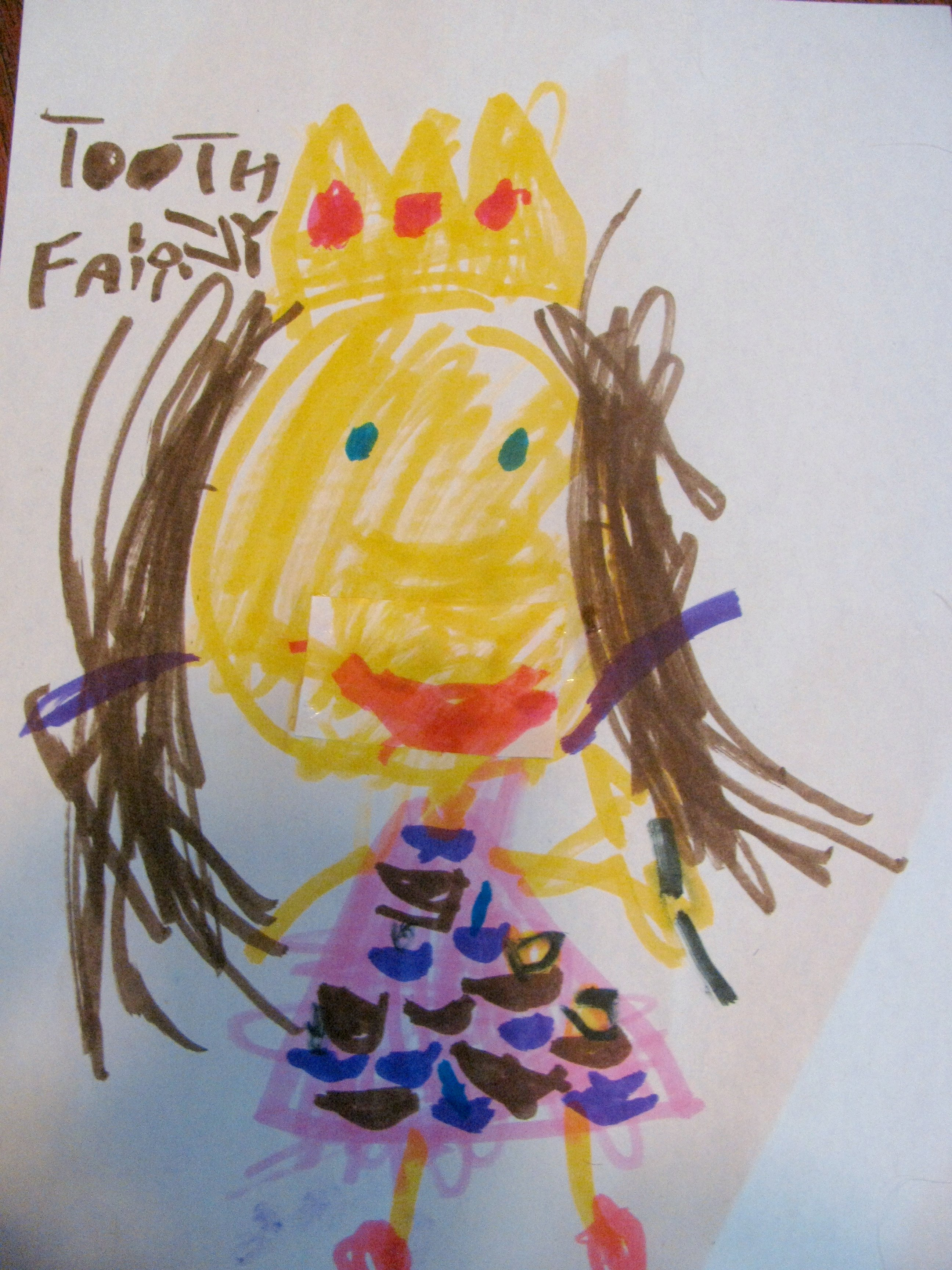 The tooth fairy, as drawn by a five-year-old girl from Illinois.